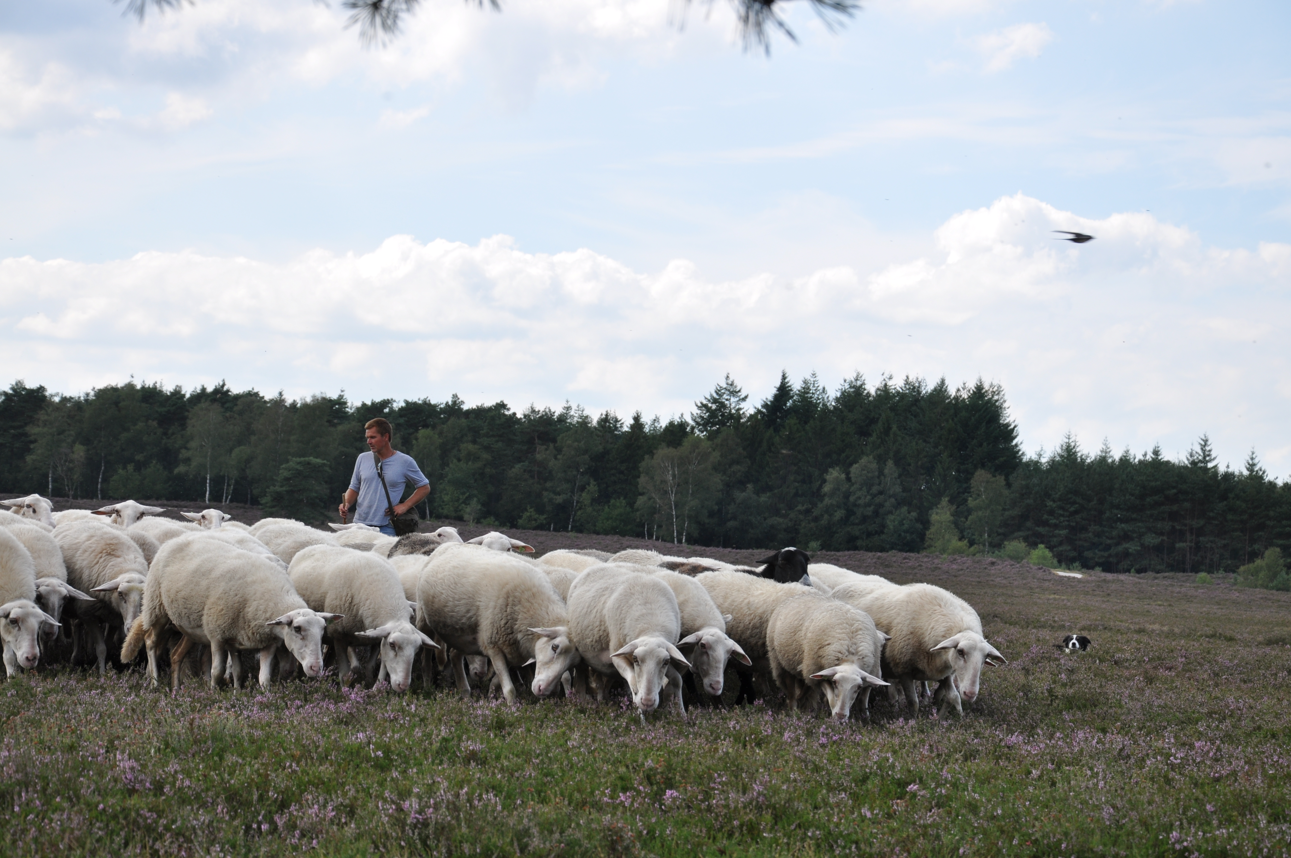 Flock of sheep at the Renderklippen, Nederland